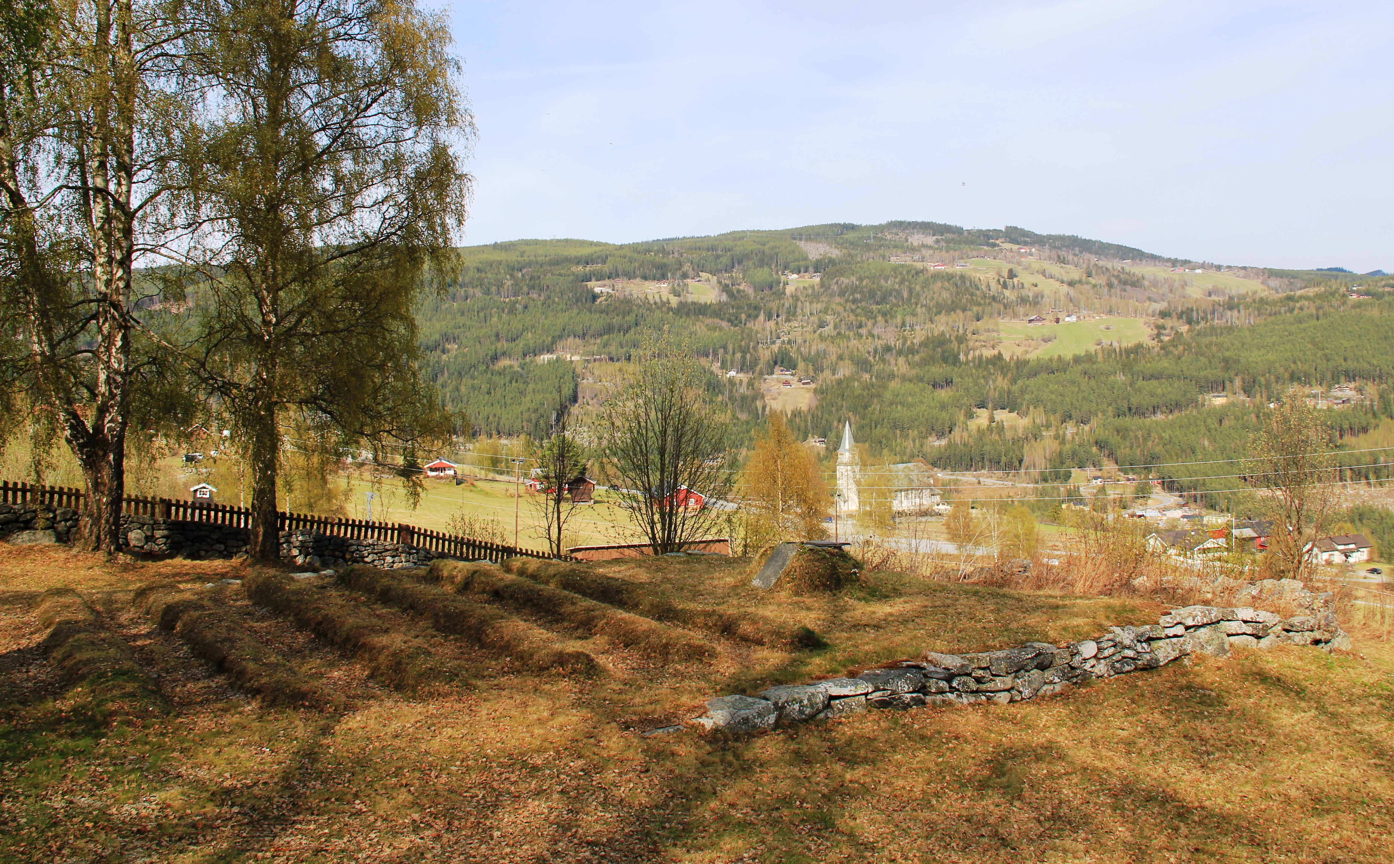 The original site for the Gol stave church. The new Gol church in the back